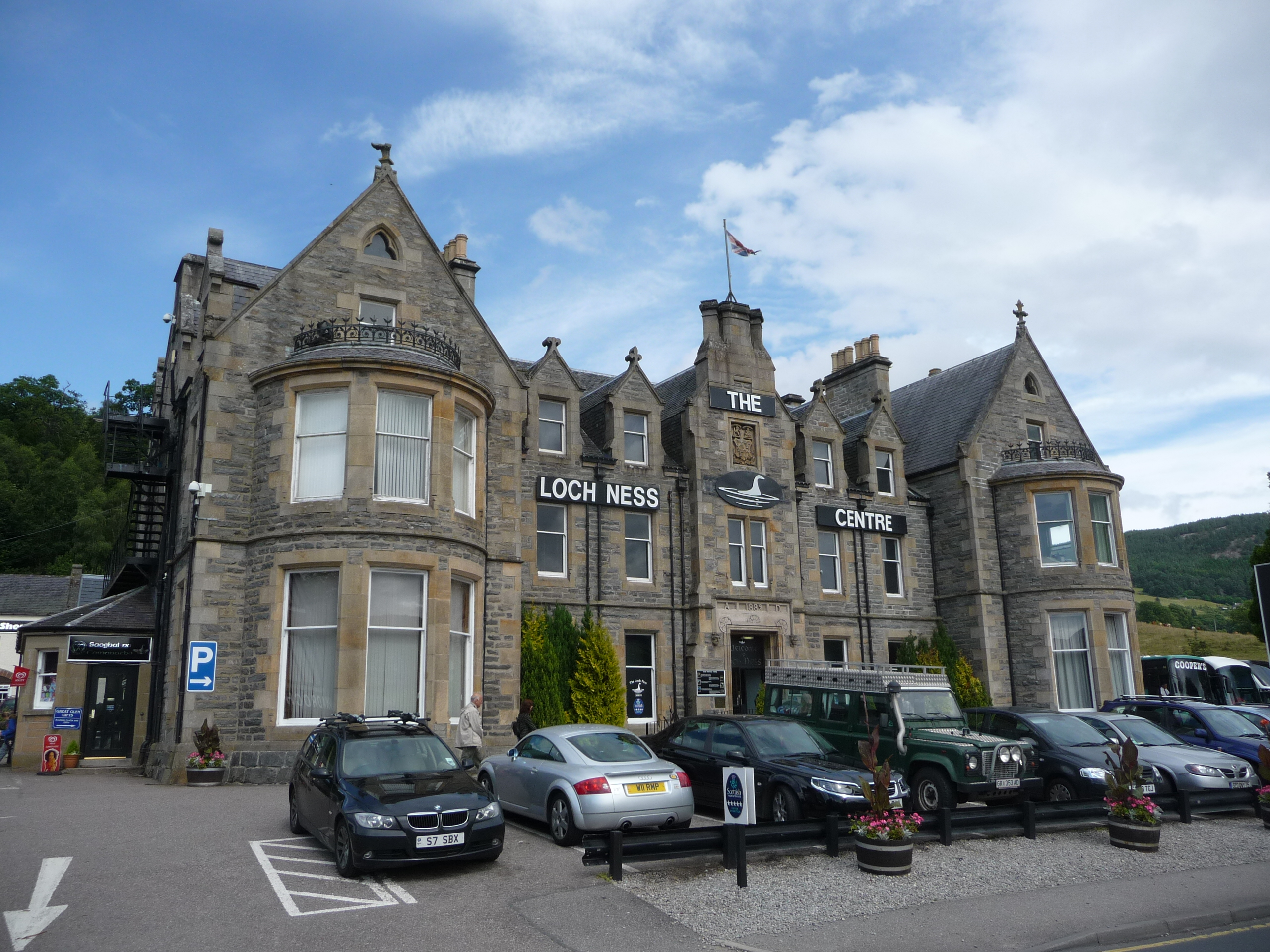 Drumnadrochit